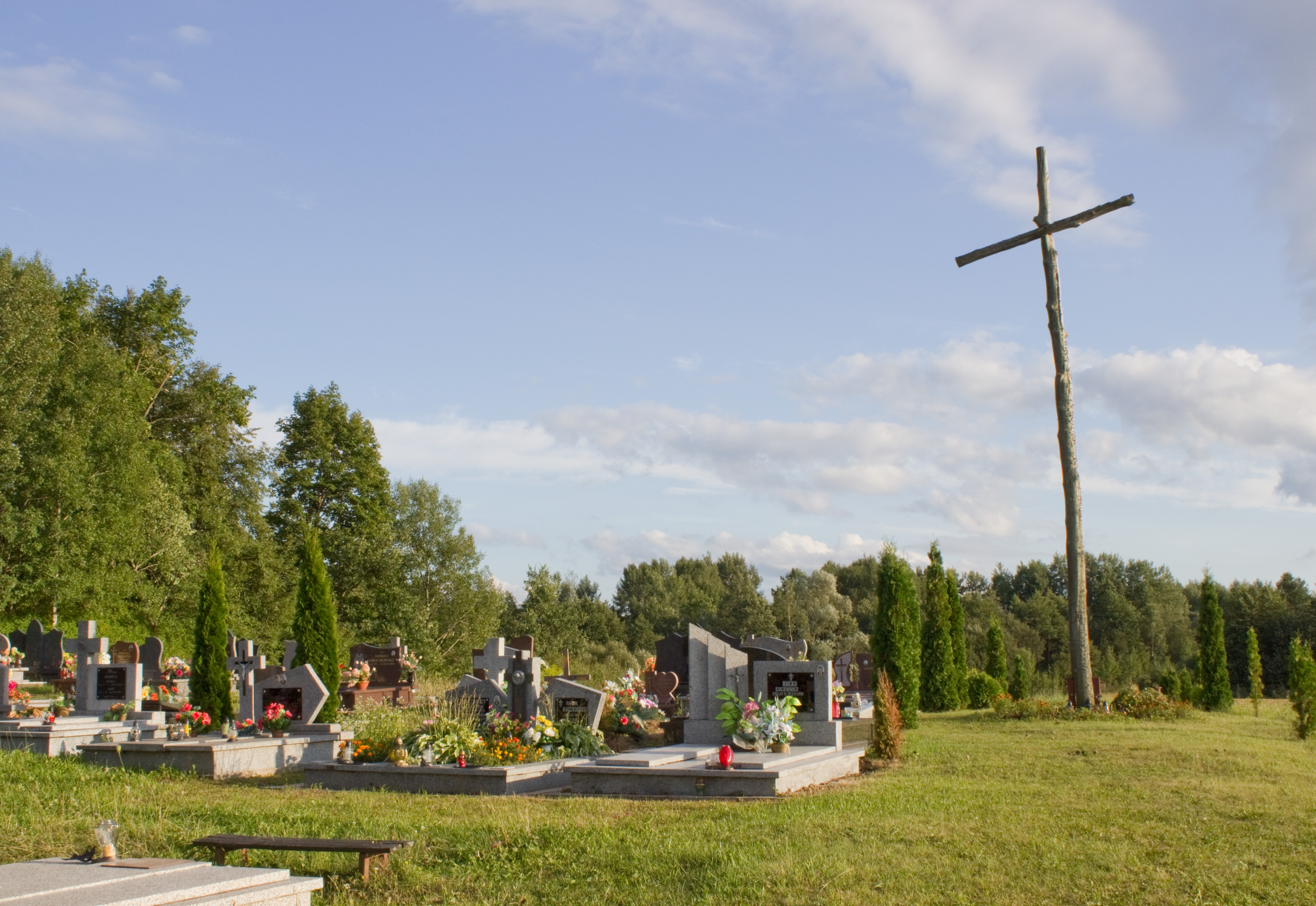 Cemetery, Romanowo, gmina Kalinowo, powiat ełcki, Warmian-Masurian Voivodeship